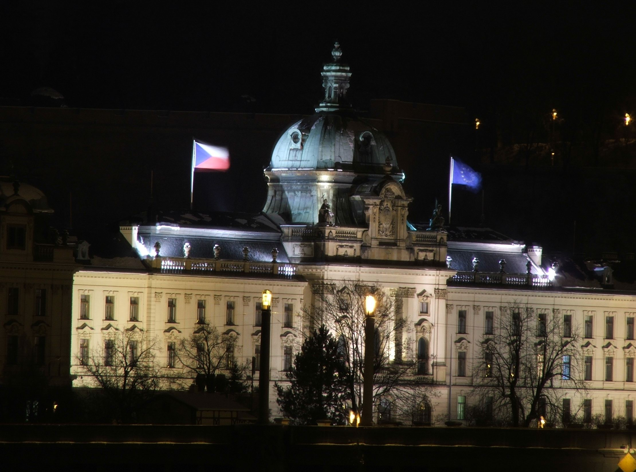 Building of Straka Academy - seat of government of the Czech Republic, Prague - Malá Strana